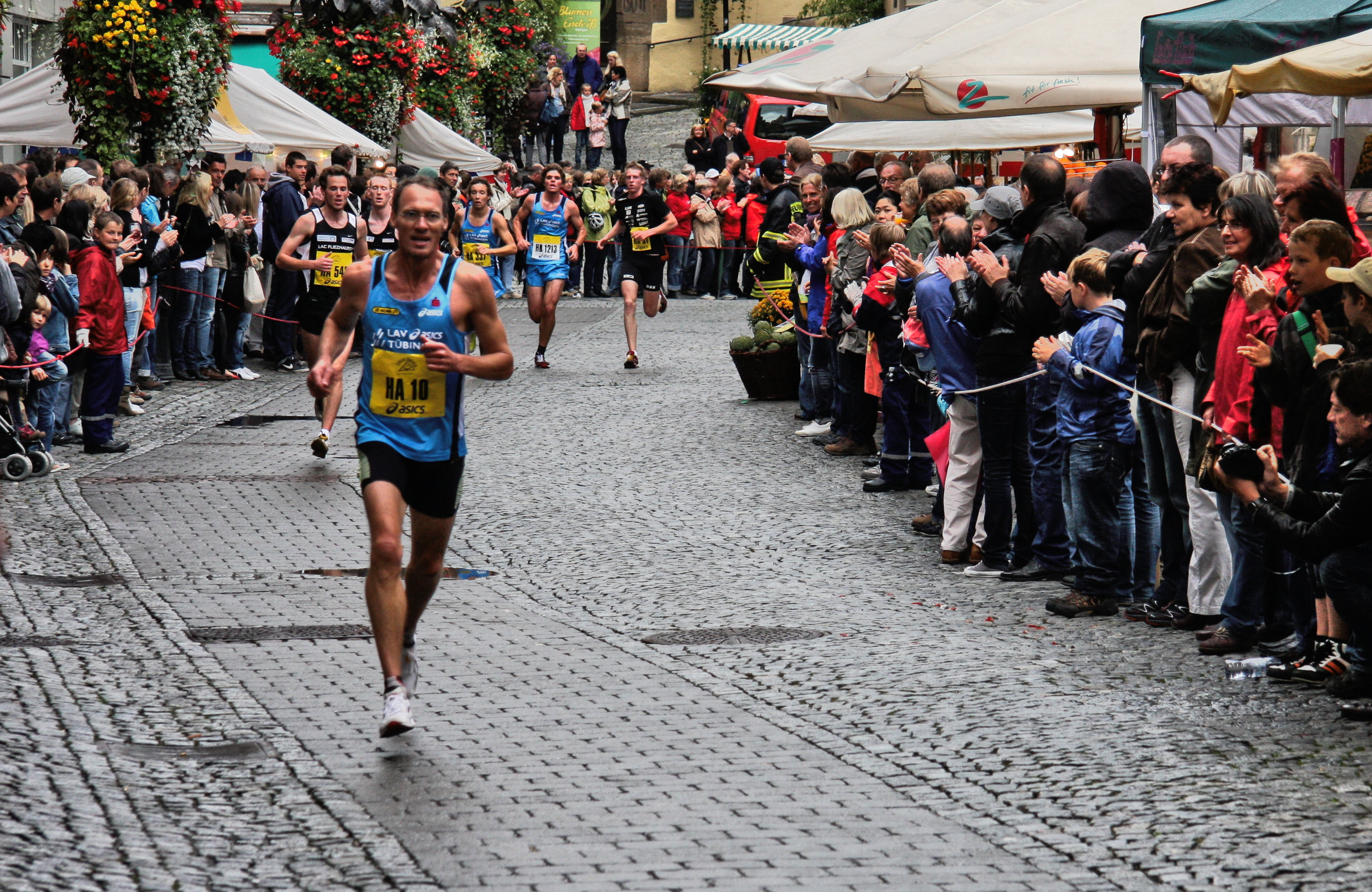 Dieter Baumann at the running event "Stadtlauf" in his home town Tübingen in 2011